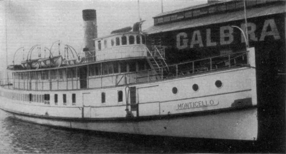 Steamboat Monticello, built 1906, also called Monticello No. 2.